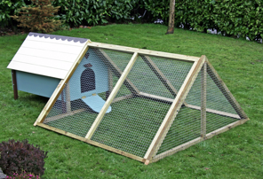 Chicken coop and run by Oakdene Coops.